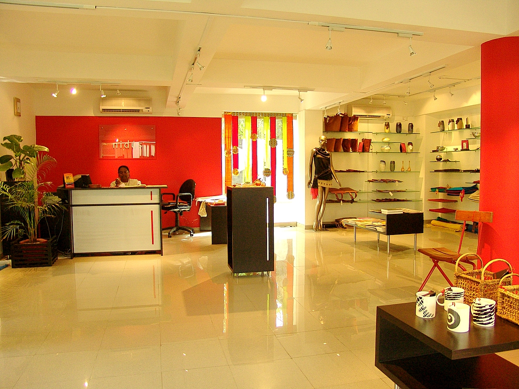 It's in the campus and sells stuff made by NID students... quite cheap... wierd stuff. Doesnt sell the Thinking Chair though..